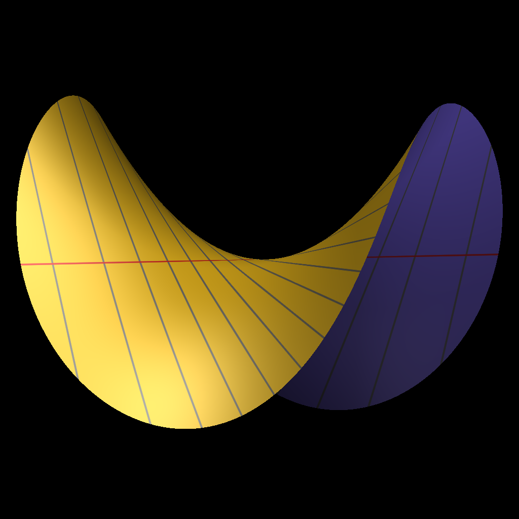 An affine chart of the blowing-up of the affine plane at the origin. The exceptional curve is marked in red, the strict transforms of some lines through the origin are marked in gray.